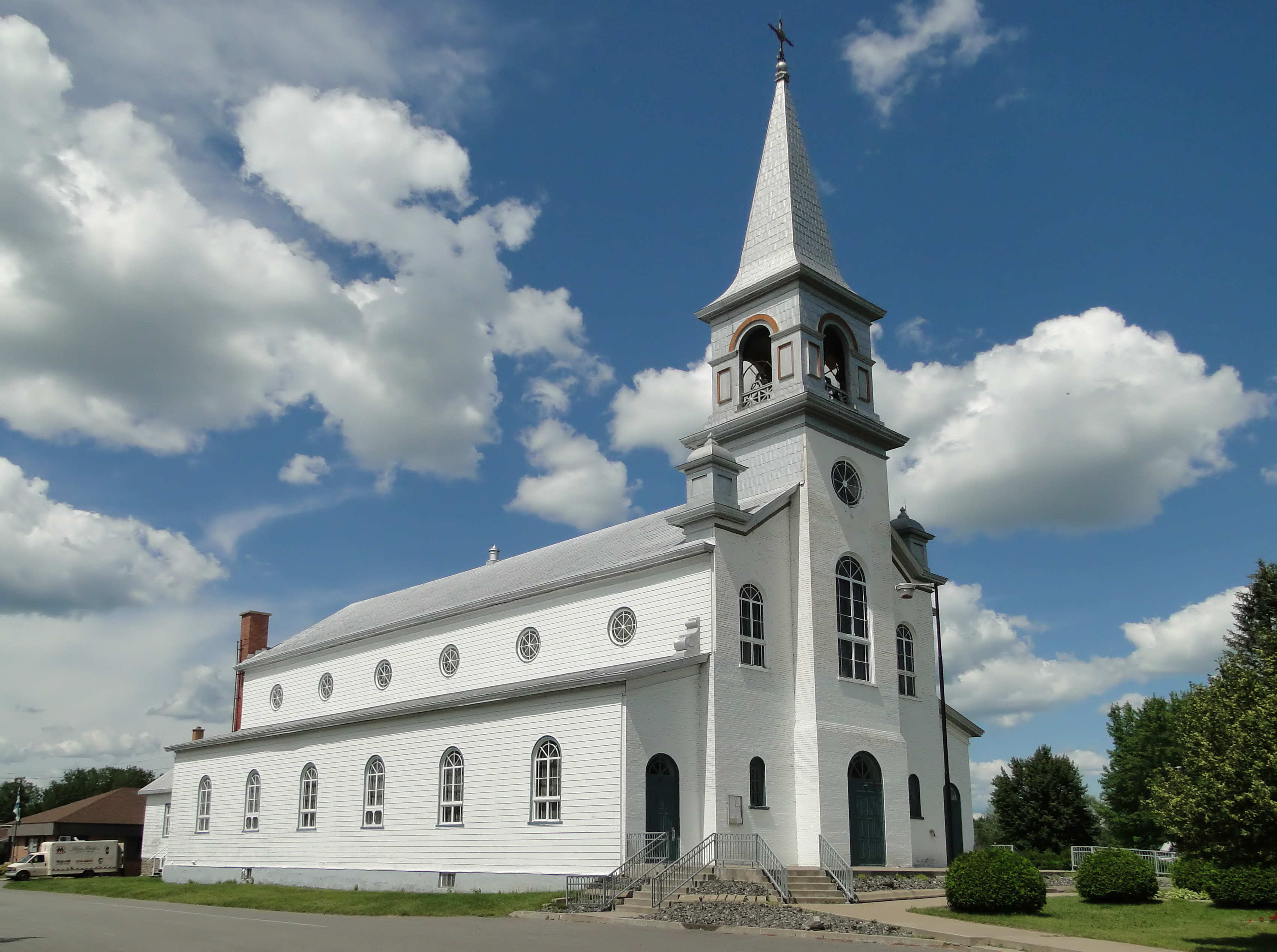 Notre-Dame-des-Neiges Church (1909-12) in Charette, province of Quebec, Canada